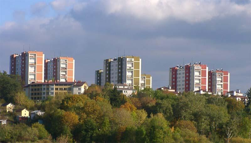 blocks of flats, Osiedle Złotego Wieku, Kraków, Poland